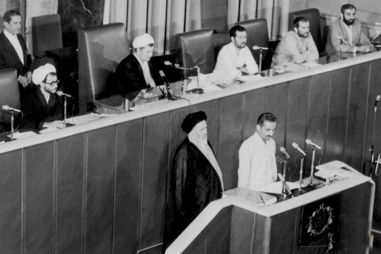 President Rajaei Inauguration at Majlis